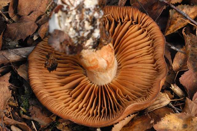 Cortinarius cinnamomeus from Commanster, Belgian High Ardennes .